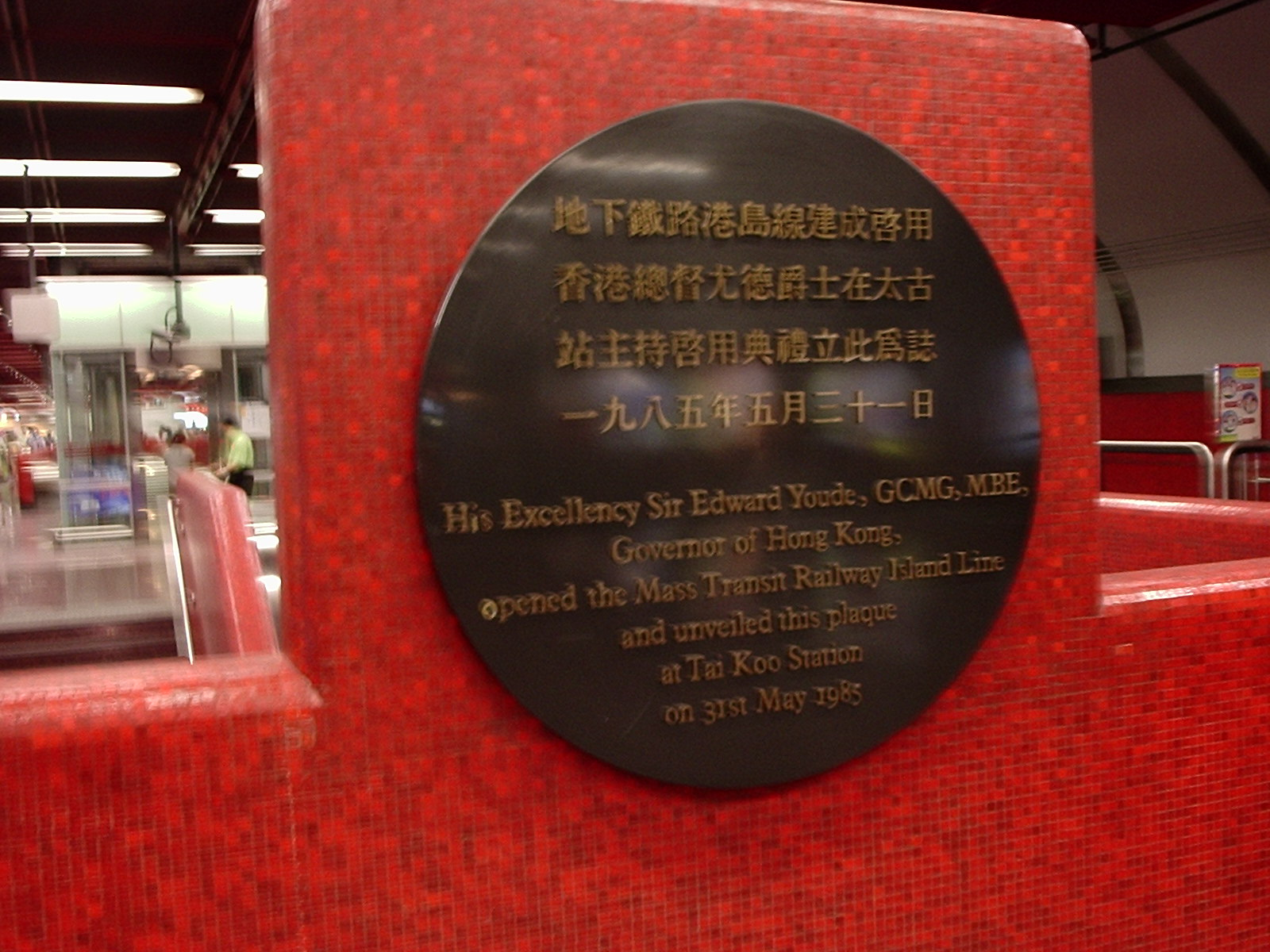 Plaque of MTR Island Line opening ceremony held at Tai Koo Station on May 31, 1985 by Edward Youde, then governor of Hong Kong. Taken on June 8, 2005.